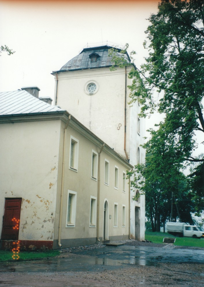 Krustpils Castle in Jēkabpils